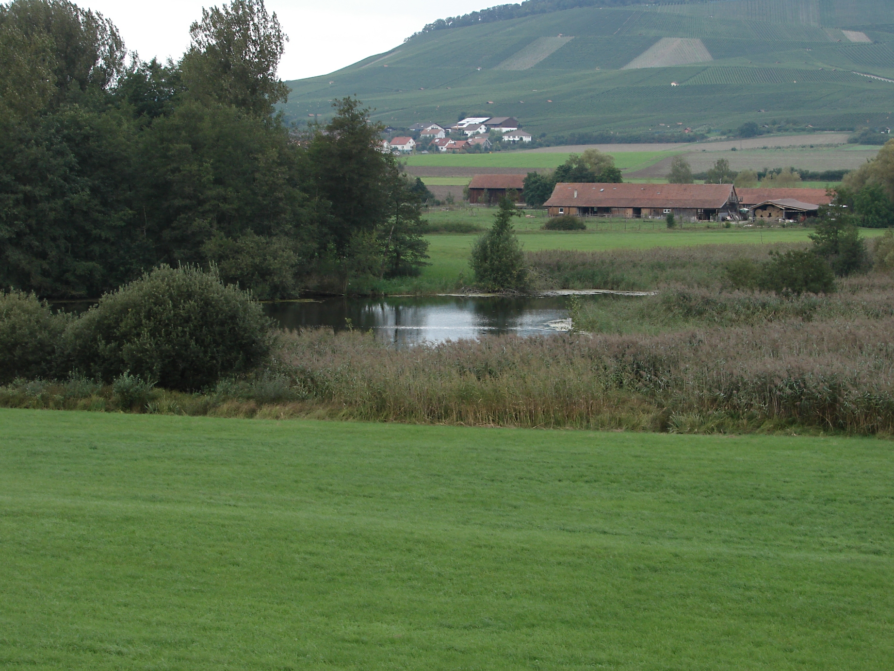 Horrheim, Württemberg, Germany: Unterer See Nature Reserve